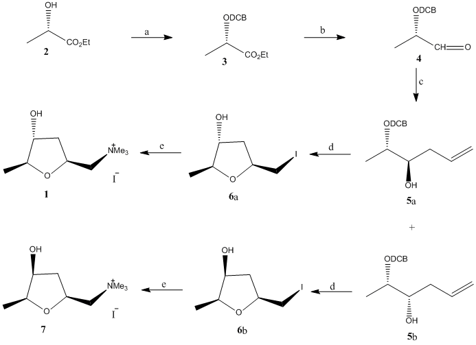 This scheme describes a efficient synthesis of (+)-muscarine.